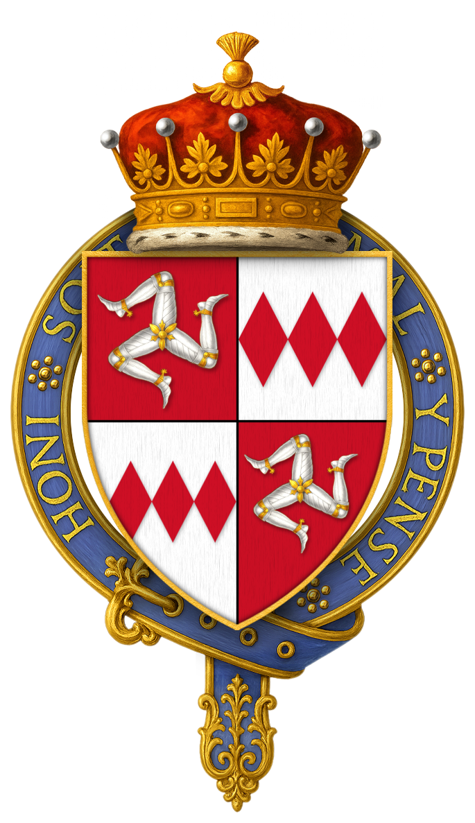 Coat of Arms of Sir William de Montacute (Montagu), 2nd Earl of Salisbury, KG, a founder knight – bore, quarterly 1st and 4th argent three lozenges conjoined in fess gules, 2nd and 3rd gules, three armed legs flexed and conjoined argent garnished or (for the lordship of Man), in the Surrey Roll. His quarterings are displayed in reverse on his Order of the Garter stall plate in St. George's Chapel, viz. 1st and 4th, Isle of Man; 2nd and 3rd Montagu